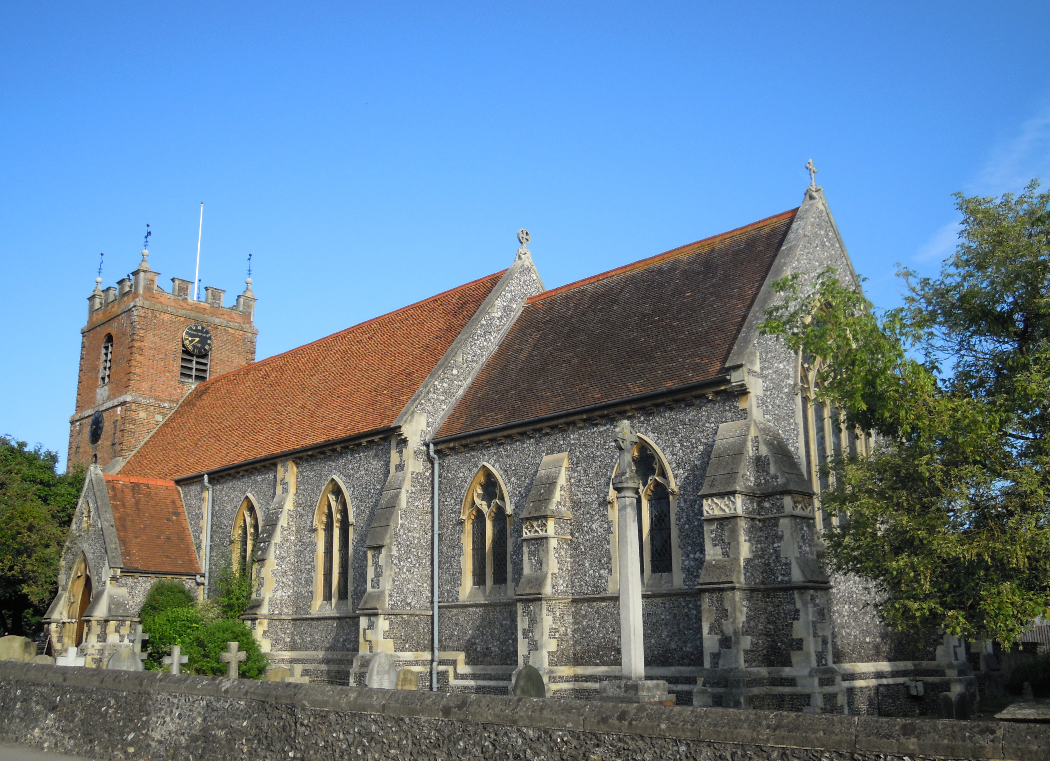 Church of England parish church of James the Less, Pangbourne, Berkshire, seen from the southeast